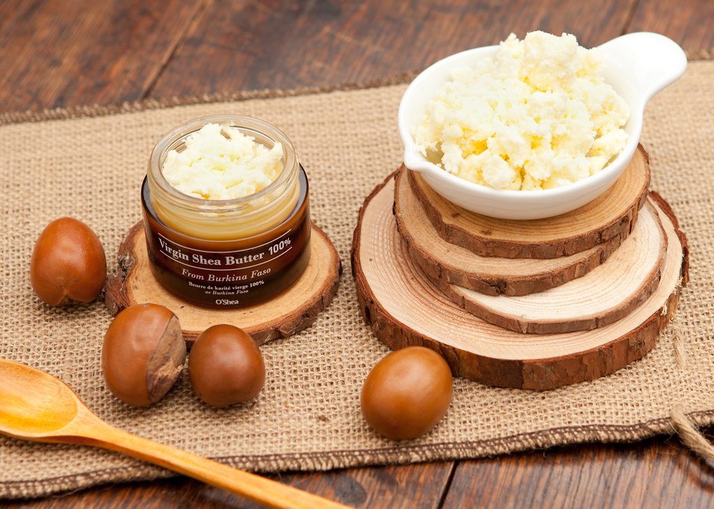 Unrefined shea butter used for medical purposes to treat eczema dermatitis.